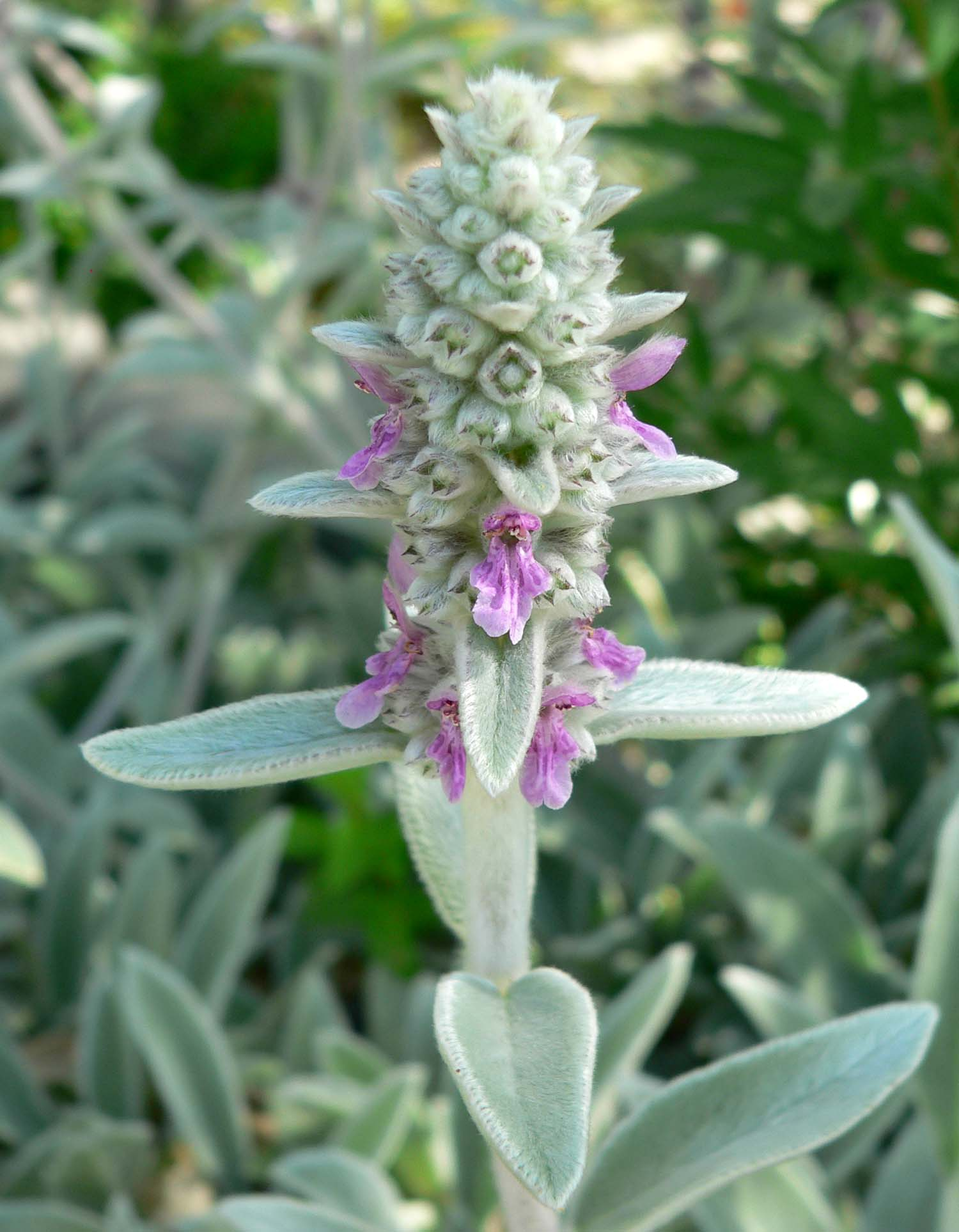 Photo of Stachys byzantina (lamb's ear) at the Springs Preserve garden in Las Vegas, Nevada